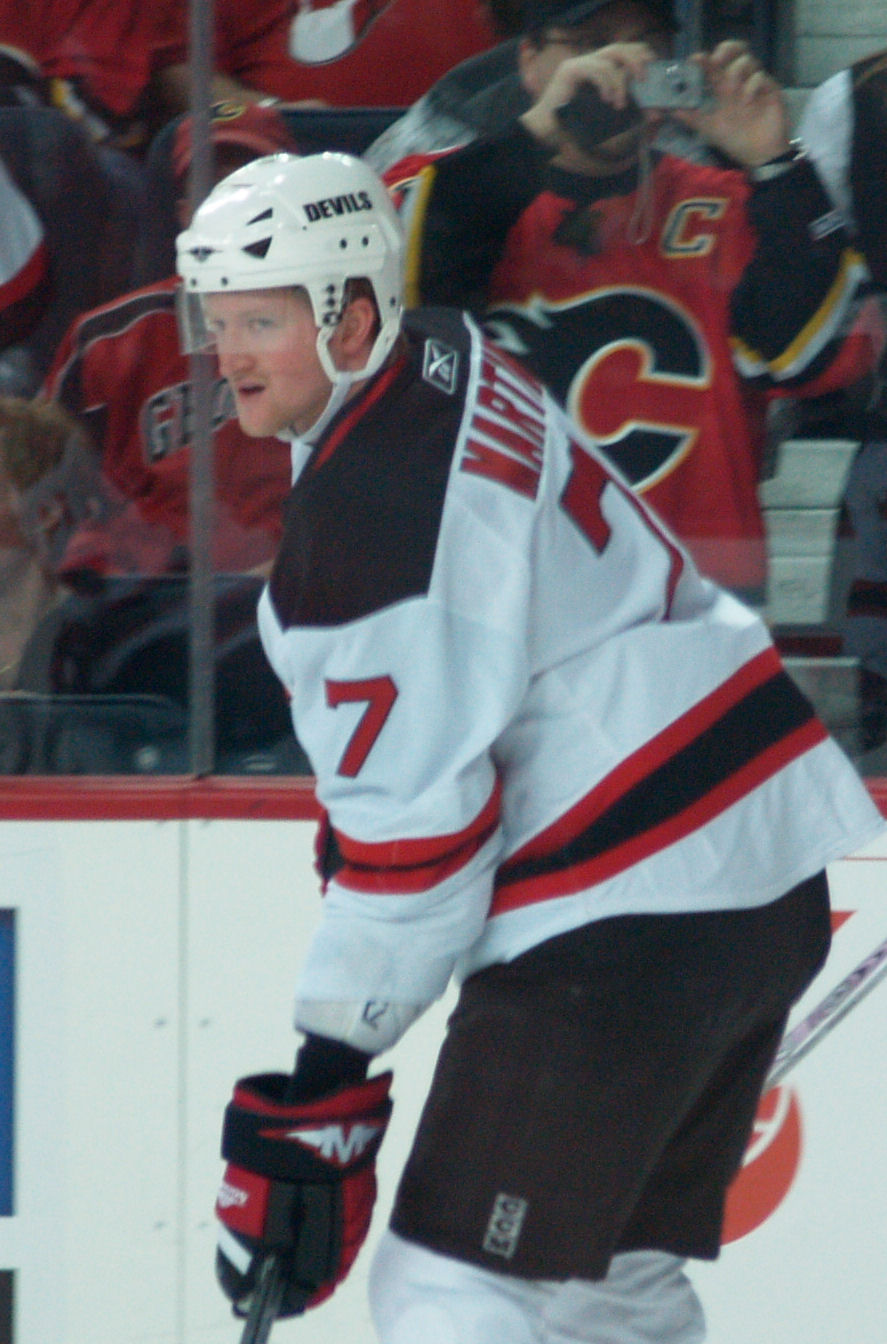 Paul Martin of the New Jersey Devils in the pre-game skate in Calgary